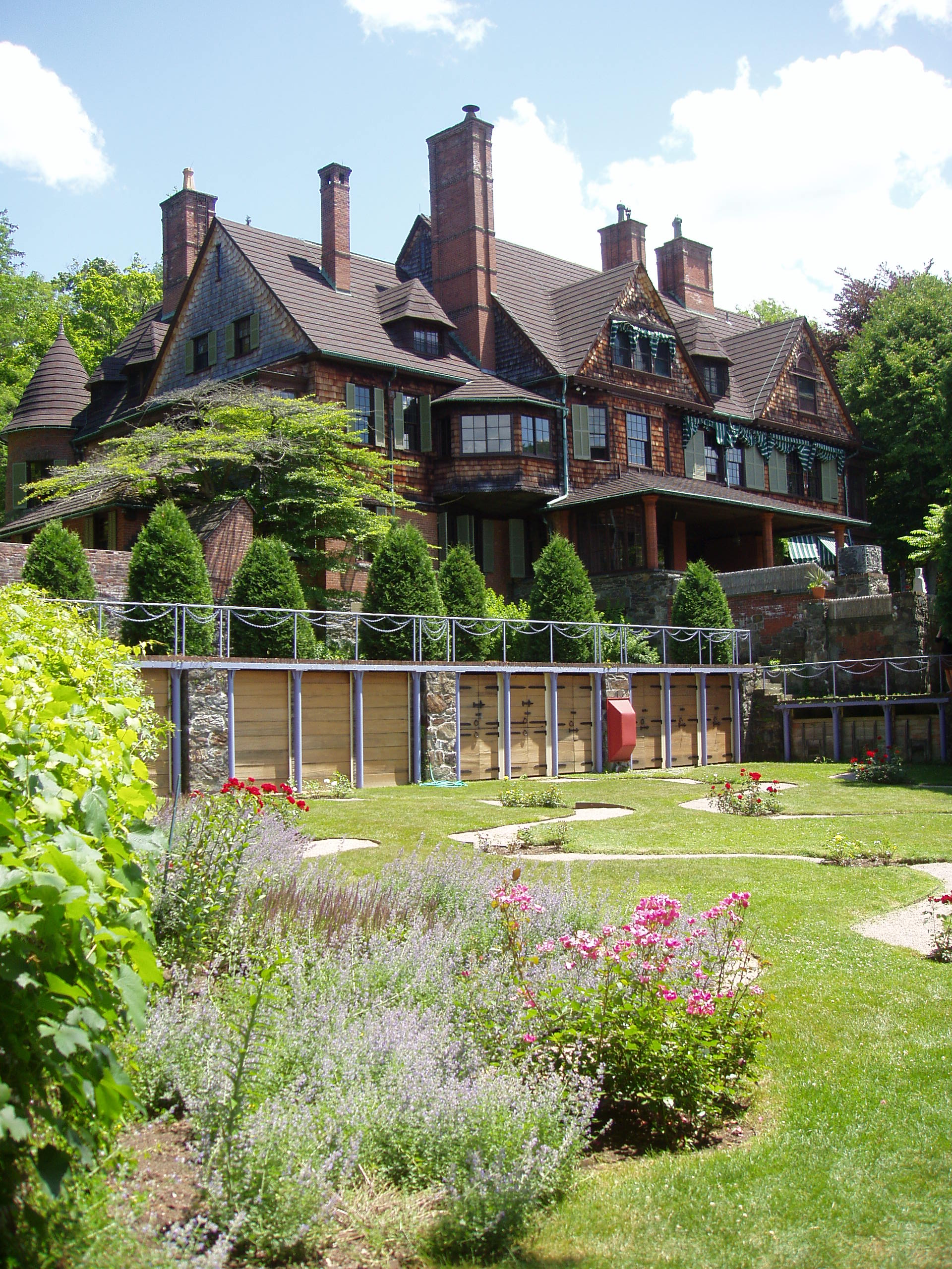 Naumkeag, Stockbridge, Massachusetts, USA - general view of house with rose garden in forefront.